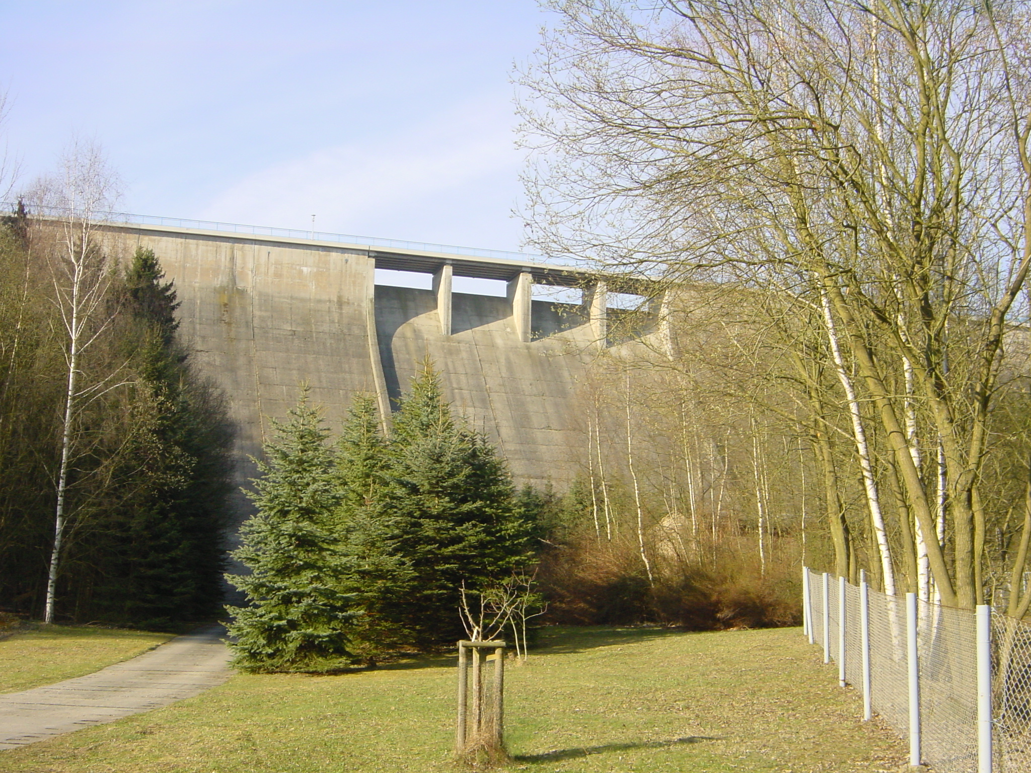 Gottleuba main dam, Saxony, Germany